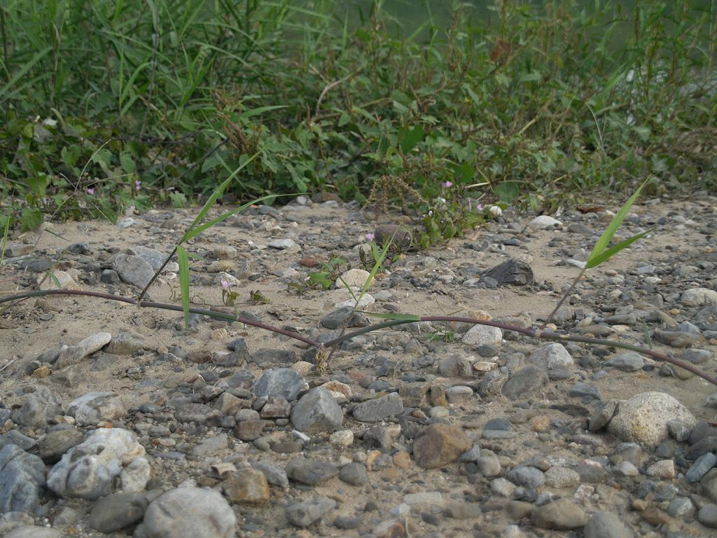 Phragmites japonica(Poaceae) Japanese name:Turuyosi：ツルヨシ Date;2009,10.11;Tanabe City, Wakayama prefecture, Japan Author;Keisotyo